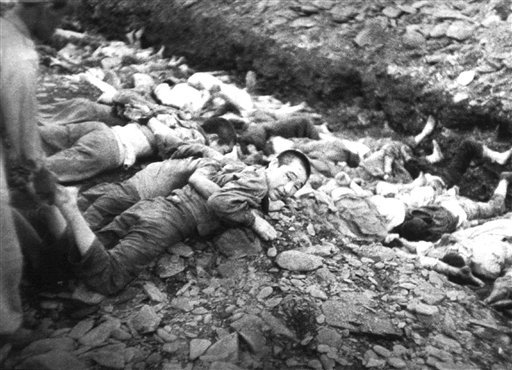 In this July 1950 U.S. Army file photograph once classified "top secret," prisoners lie on the ground before their execution by South Korean troops in Taejon (now known as Daejeon), South Korea. Shutting down its inquiry into South Korea's hidden history, a government commission investigating a century of human rights abuses will leave unexplored scores of suspected mass graves believed to hold remains of tens of thousands of South Korean political detainees summarily executed by their government early in the Korean War, sometimes as U.S. officers watched. In a political about-face, the commission, which also investigated the U.S. military's large-scale killing of Korean War refugees, has ruled the Americans in case after case acted out of military necessity. 1,800 South Korean political prisoners were executed by the South Korean military at Taejon, South Korea, over three days in July 1950.[1] National Archives, Major Abbott/U.S. Army - copy via AP Photo